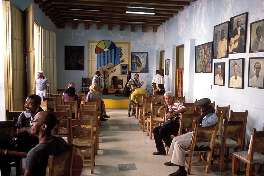 Casa de la Trova, a local musical house at Santiago de Cuba.